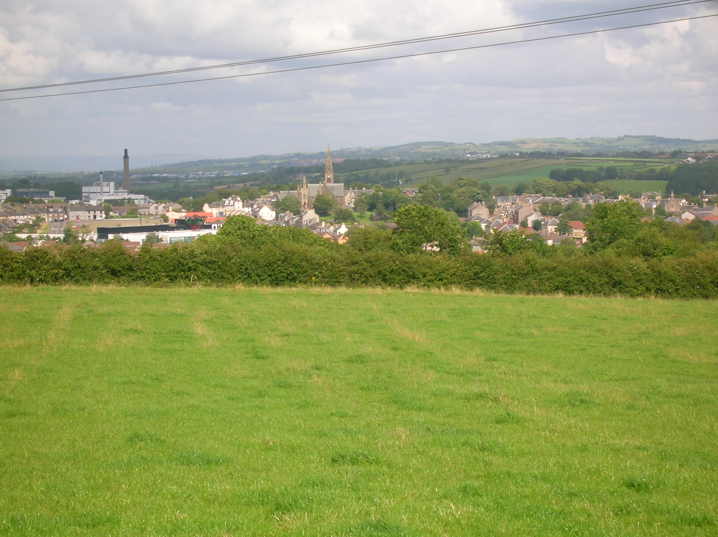 Dalry from Lynncraigs hill, North Ayrshire, Scotland